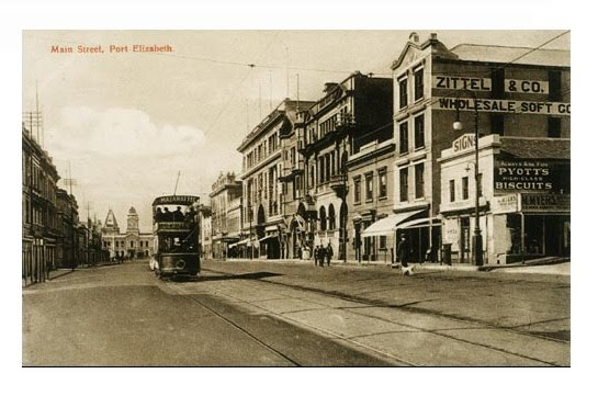 View of Main Street (now Govan Mbeki Avenue), Port Elizabeth, South Africa, including double-decker tram.